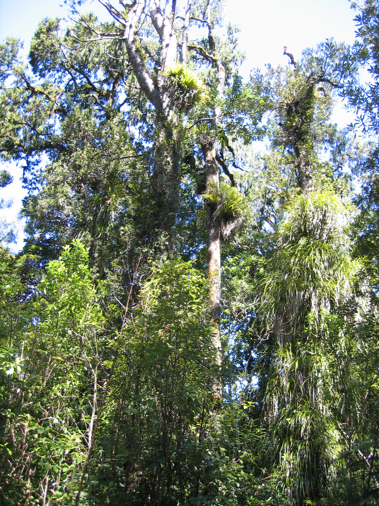 Trees in Waipoua Forest.